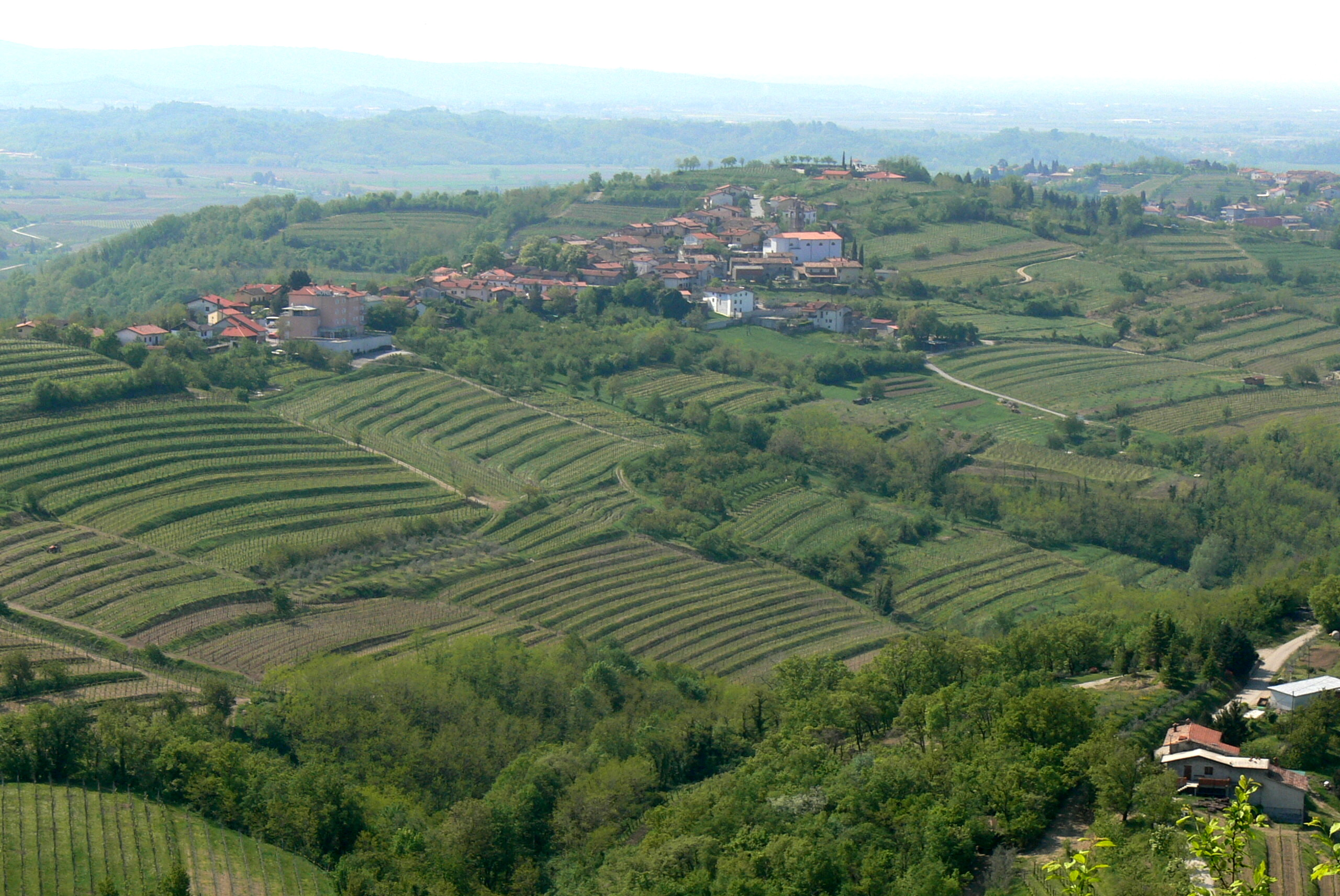 Šmartno ( Slovenia ). View of the surrounding countryside.